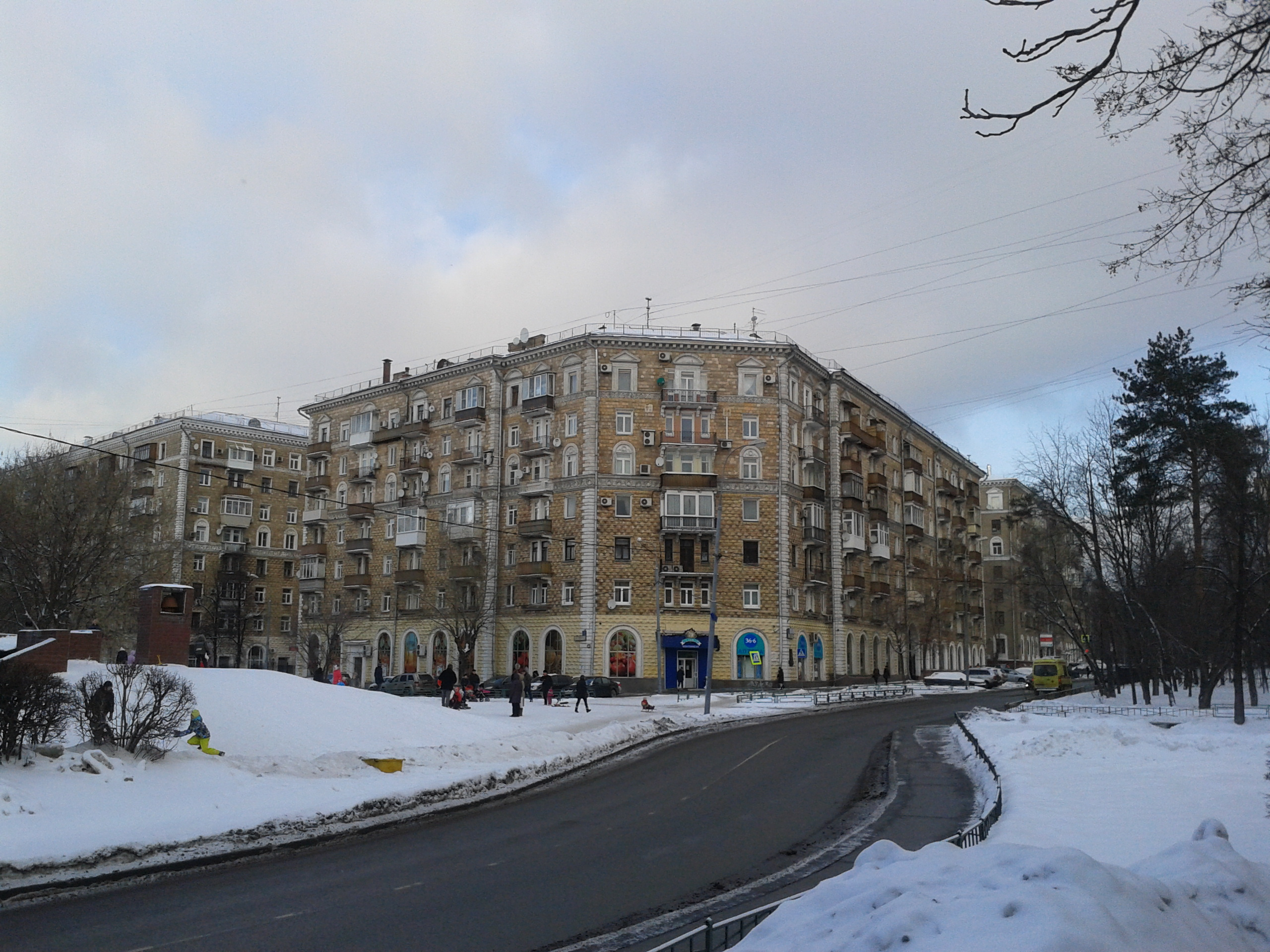 Building by architect Rosenfeld in Moscow, The Second Peschanaya ul.